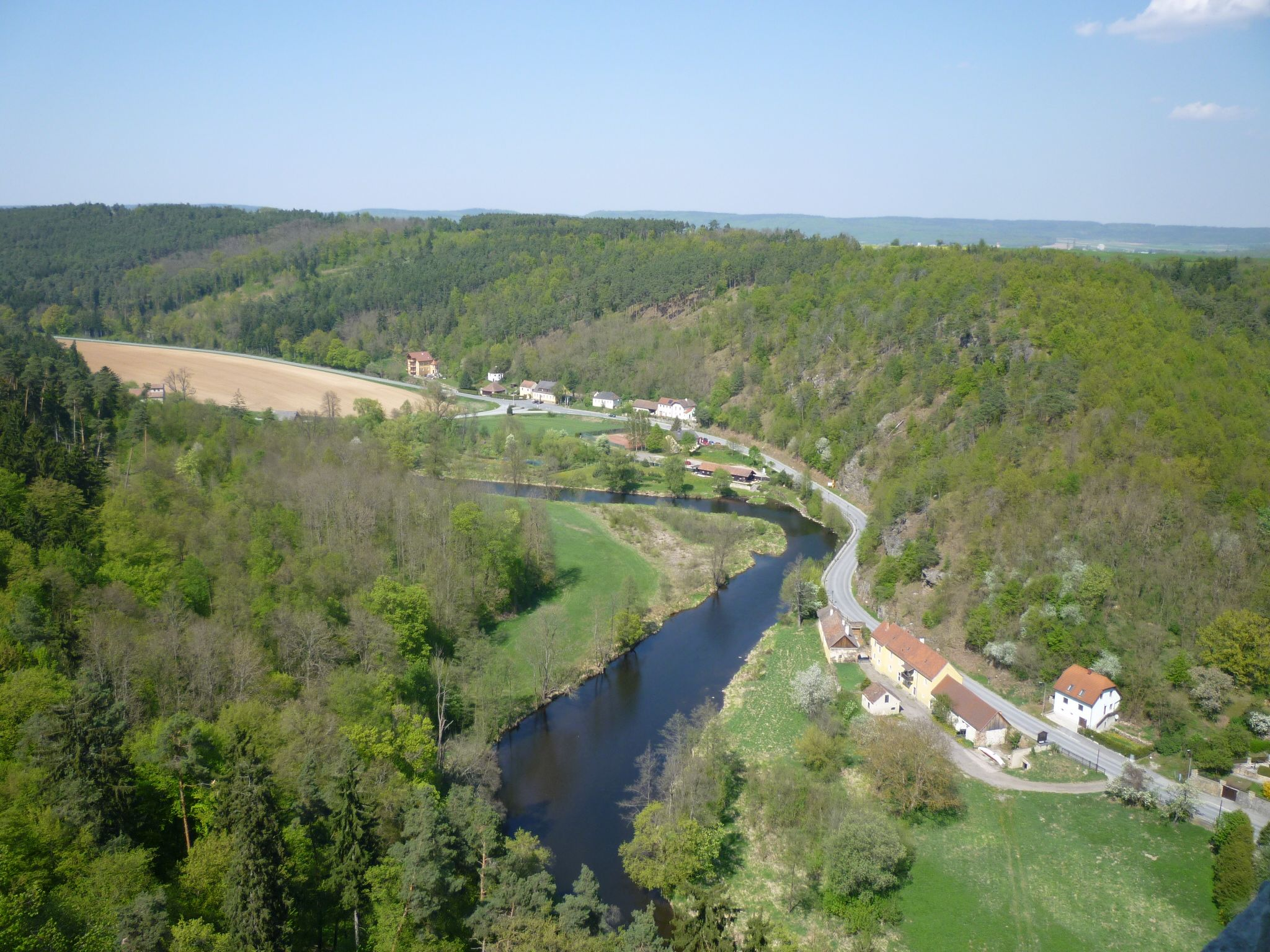 Kamptal bei Rosenburg am Kamp Niederösterreich